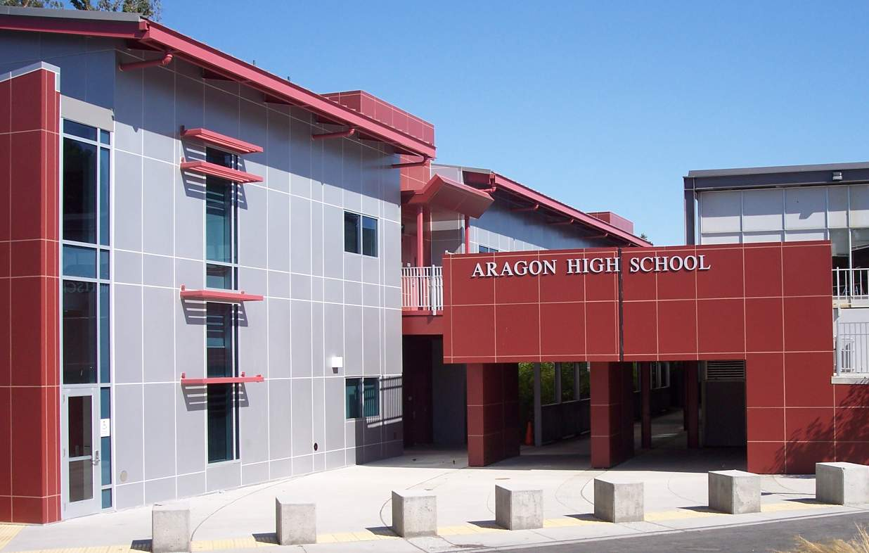 Aragon High School, San Mateo California, main entrance. The building was constructed in the mid-2000's. [1]